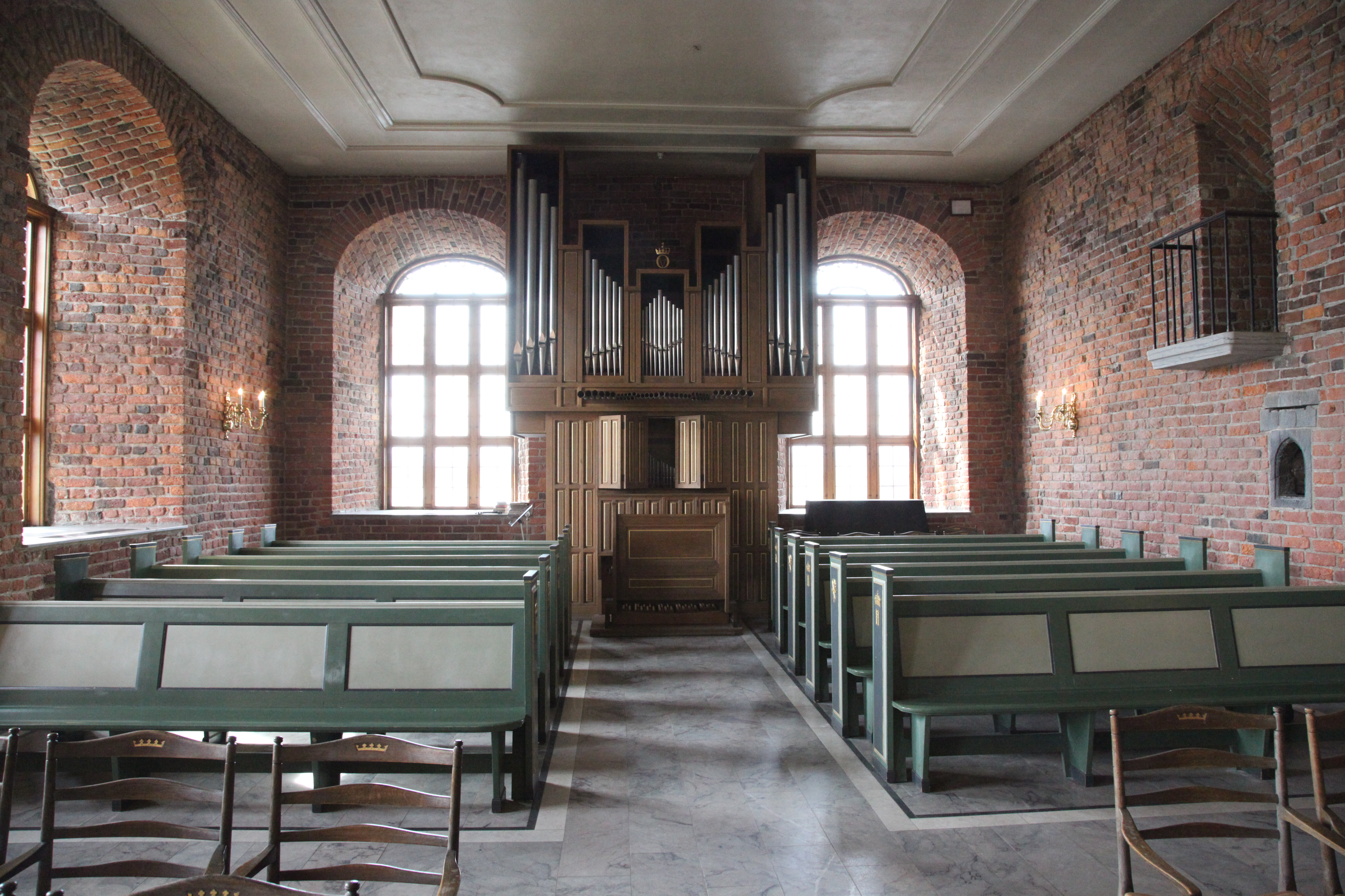 The church in Akershus Castle